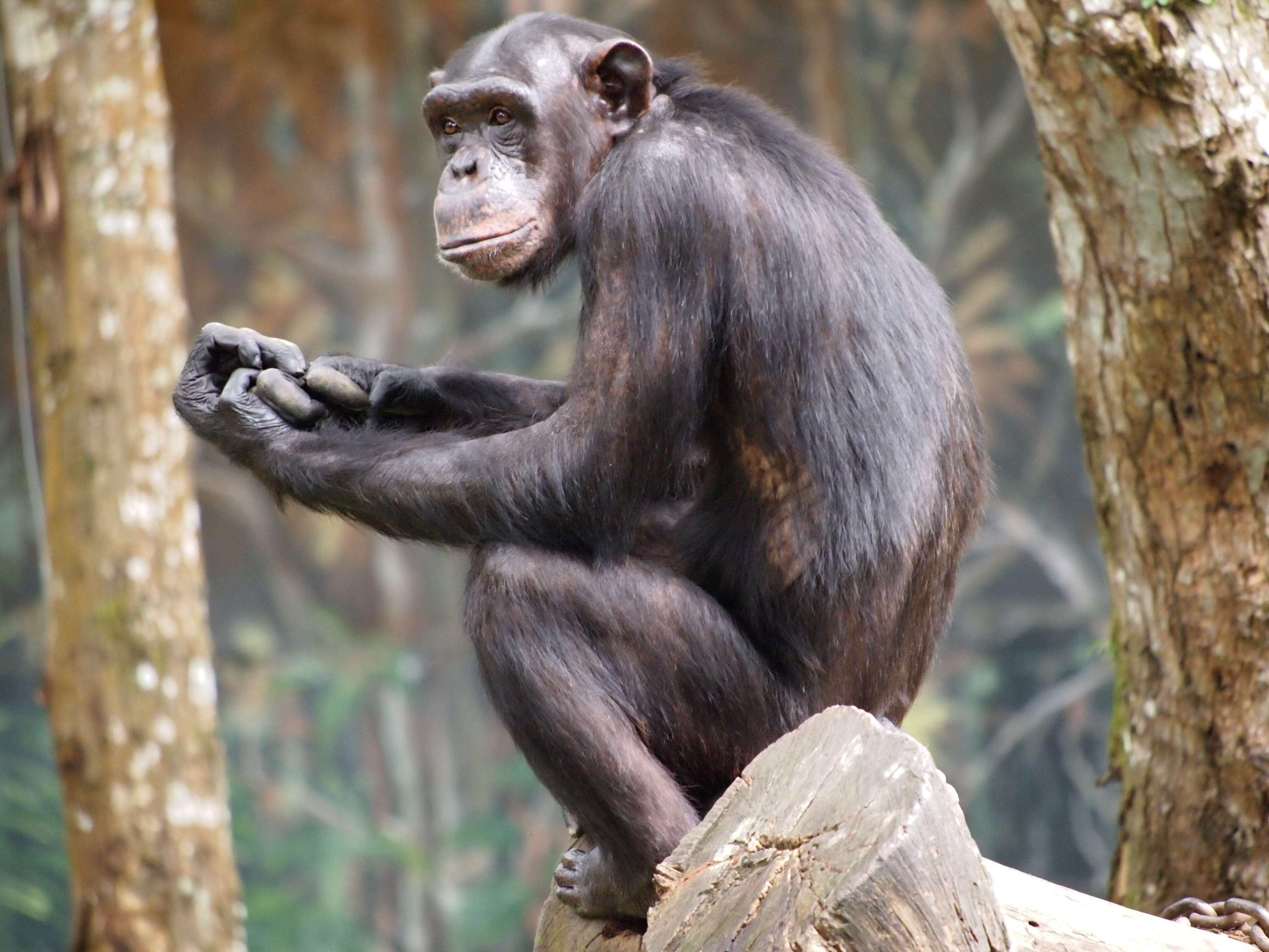 Pan troglodytes (Chimpanzee) at National Zoo Malaysia